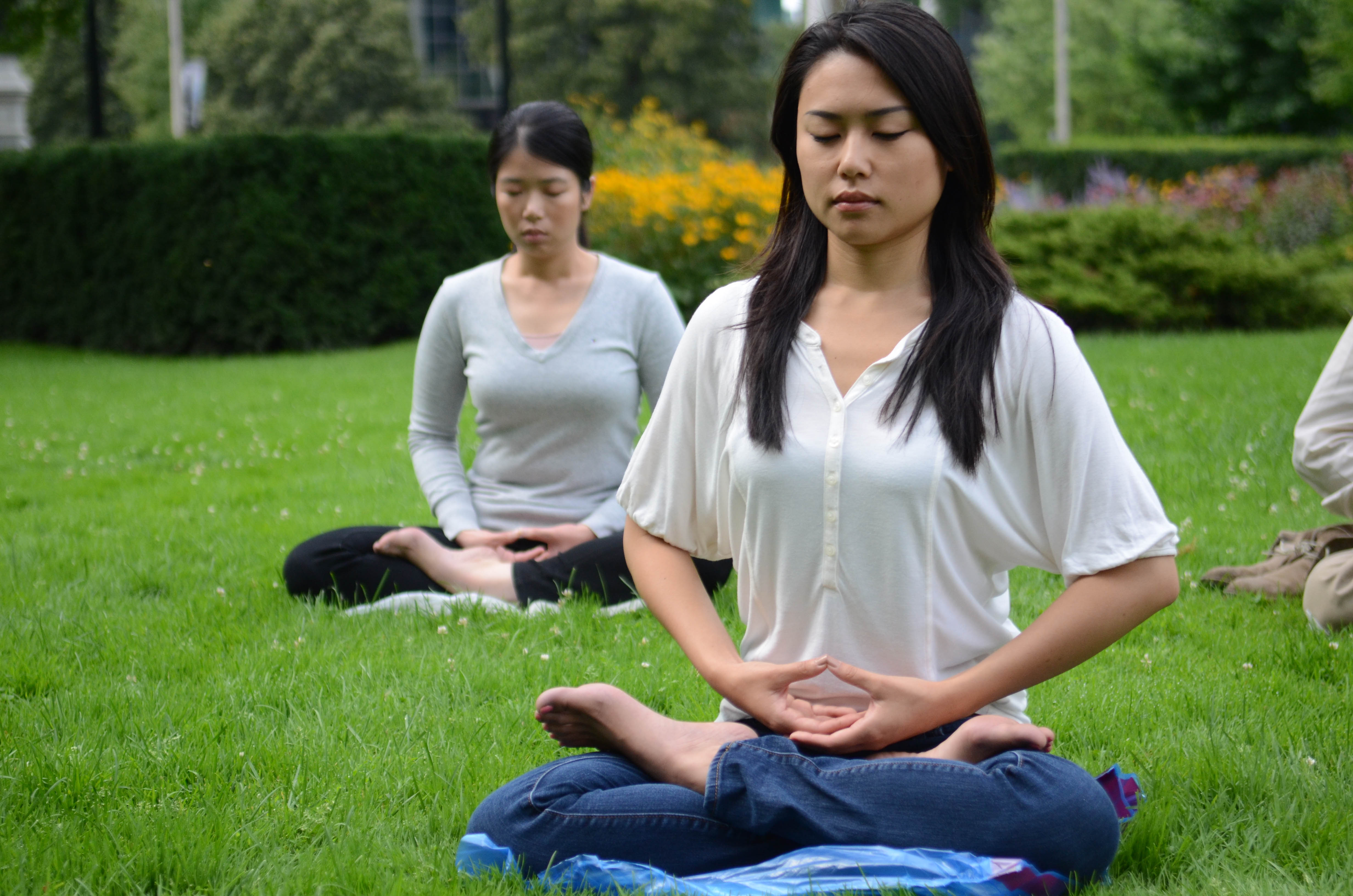 Falun Gong practitioners hold their hands in the "jeiyin" position while doing the fifth exercise (a sitting meditation) of Falun Gong in Toronto.